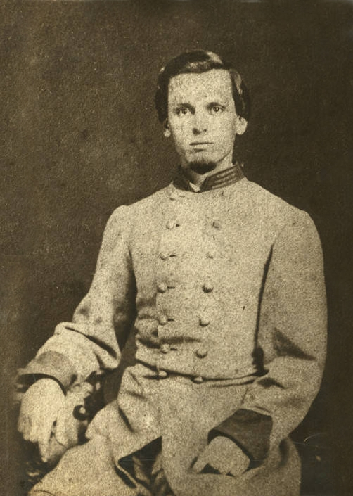 Captain Edward Crenshaw, Company B, 58th Alabama Infantry, C.S.A., Alabama Department of Archives and History